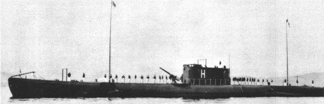 The Brazilian submarine Humaytá. Humaytá was a modified Balilla-class submarine built in Italy for the Brazilian Navy. The submarine was laid down by Odero-Terni-Orlando at La Spezia on 19 November 1925, launched on 11 June 1927, and handed over to the Brazilian Navy on 11 June 1929. Proceeds from the sale of the Brazilian battleship Marshal Deodoro to the Mexican Navy provided funds for Humaytá's purchase. Humaytá was commissioned into the Brazilian Navy on 20 July 1929. She remained in Brazilian service throughout the Second World War and was decommissioned on 25 November 1950.